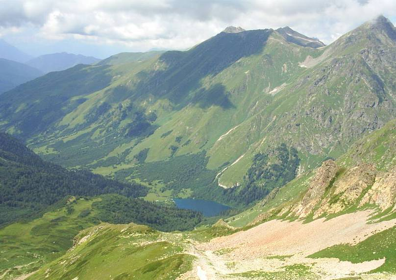 Lake Kardyvach in Krasnodarsky krai, Russian Federation.